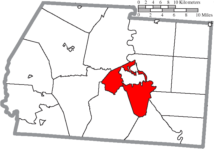 Map of the municipal and township boundaries of Ross County, Ohio, United States, as of the 2000 census, with the location of Scioto Township highlighted. Township borders are shown only in unincorporated areas in order to differentiate incorporated and unincorporated areas more clearly.